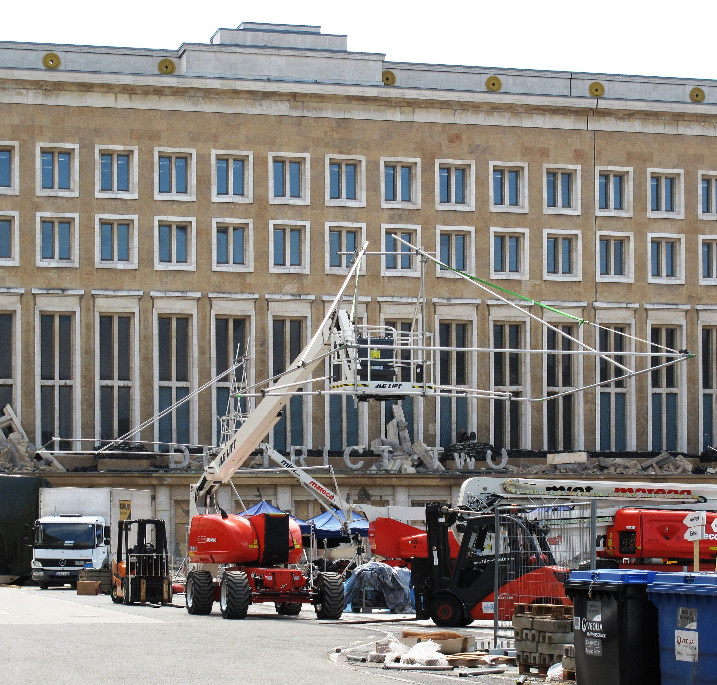 Listed entrance of the 2008 closed Berlin Tempelhof Airport during filming The Hunger Games: Mockingjay – Part 2 in May 2014. On the airport were shot scenes of the Panem-district 2. The despite the closure still existing lettering „ZENTRALFLUGHAFEN“ was replaced for the shooting by the lettering „DISTRICT TWO“.